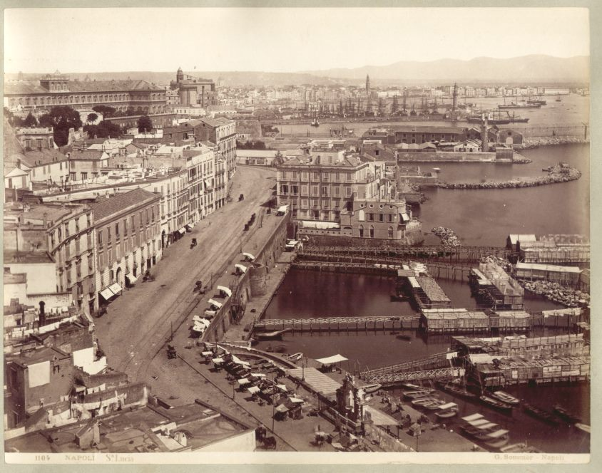 Giorgio Sommer (1834-1914), "Napoli - Santa Lucia" . Catalogue #: 1104.